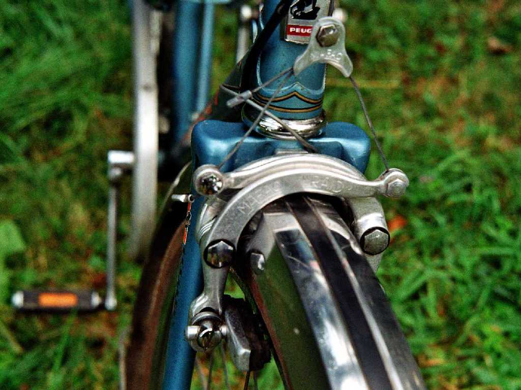 Bicycle brakes MAFAC RAID (c.a. 1975)